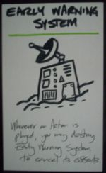 Drawn by submitter.